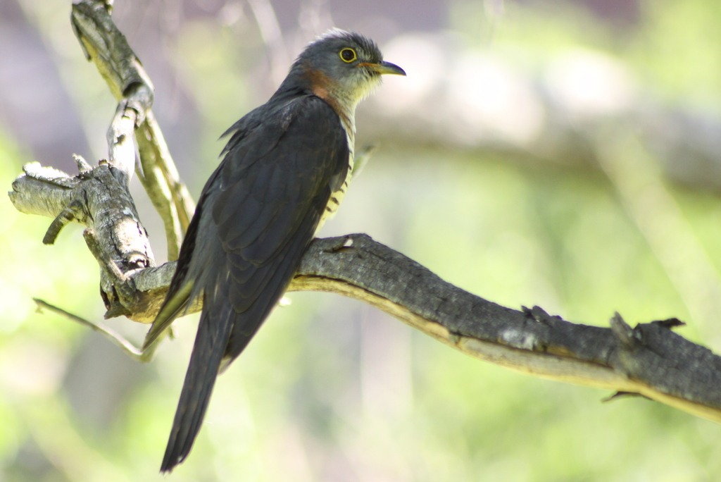 A Red-chested Cuckoo at Walter Sisulu National Botanical Garden, Johannesburg, South Africa.